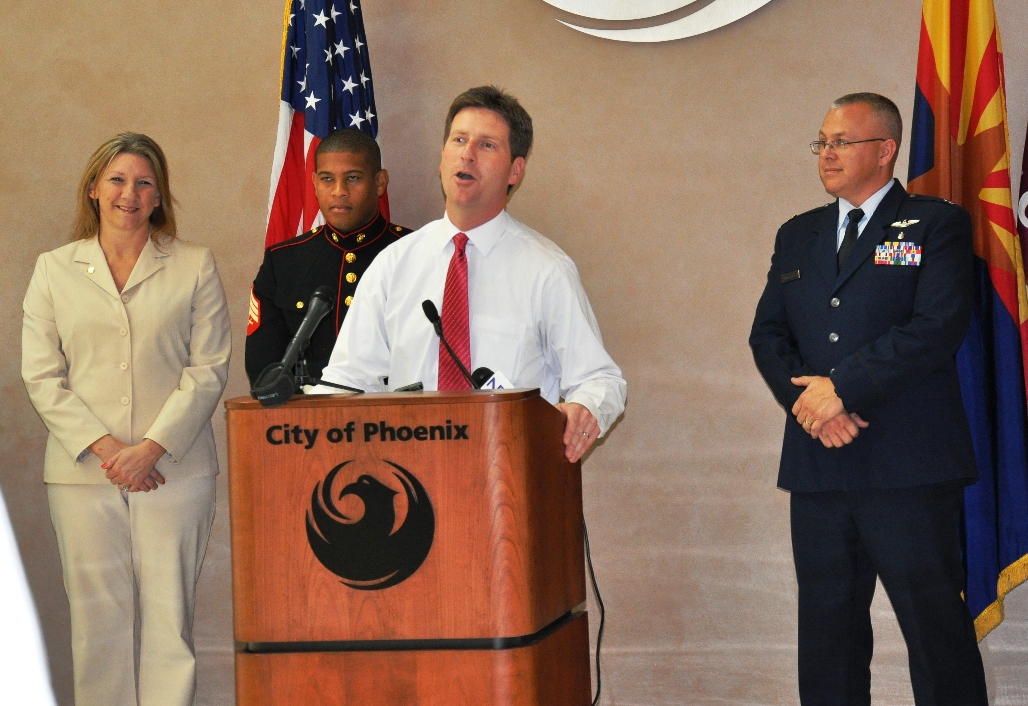 Phoenix Mayor Greg Stanton briefs reporters at a press conference at City Hall July 2 regarding the Arizona Diamondbacks’ Fourth of July military appreciation game. The mayor also recognized Capt. Andrew Hoeffler, a family nurse practitioner with the 56th Medical Group, who successfully resuscitated a drowning victim at the Luke AFB community pool June 23. Hoeffler was one of two Airmen who represented Luke during the pre-game ceremony at the baseball game.